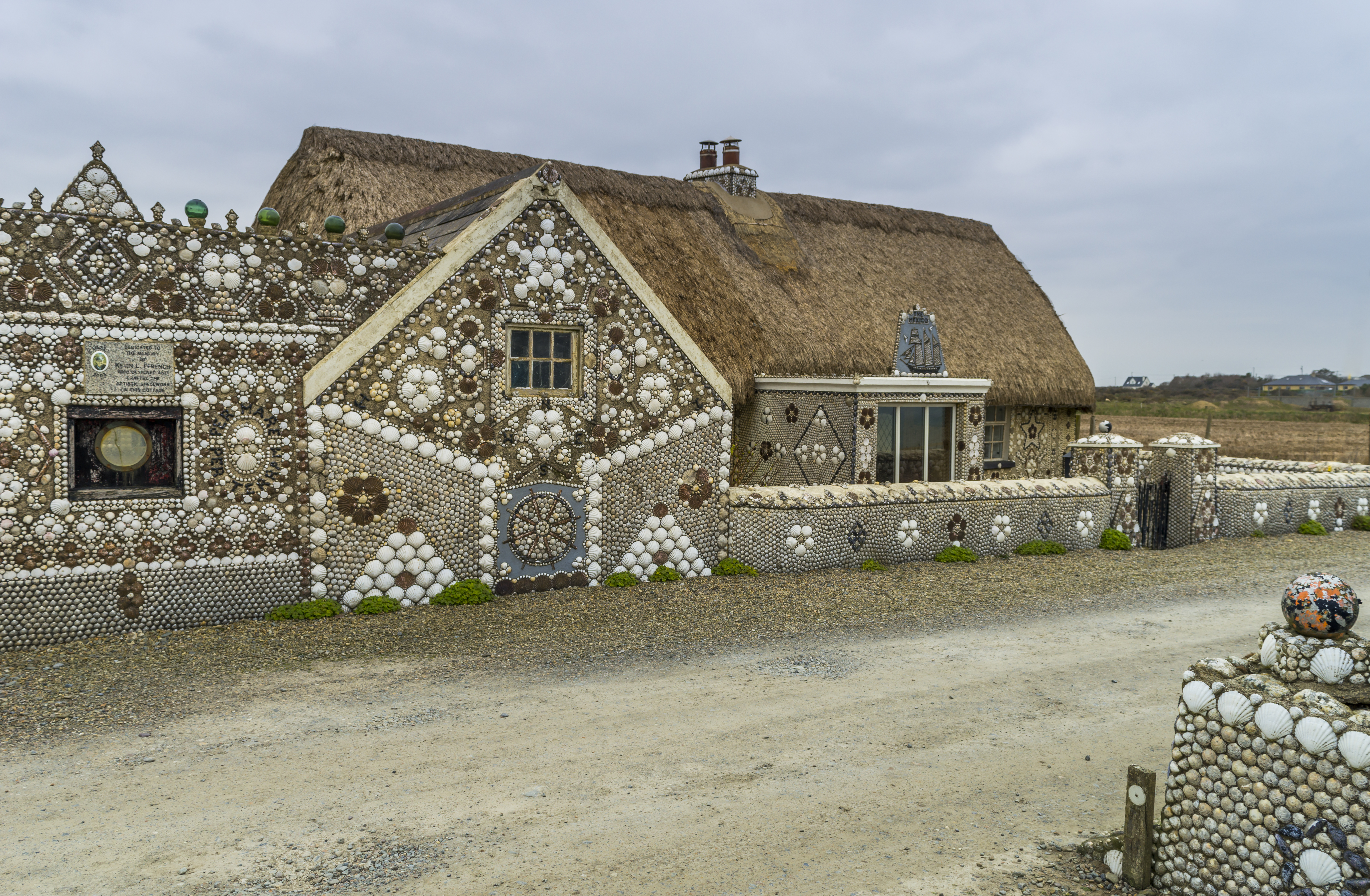 The famous Shell Cottage at Cullenstown Beach designed by Kevin Ffrench.